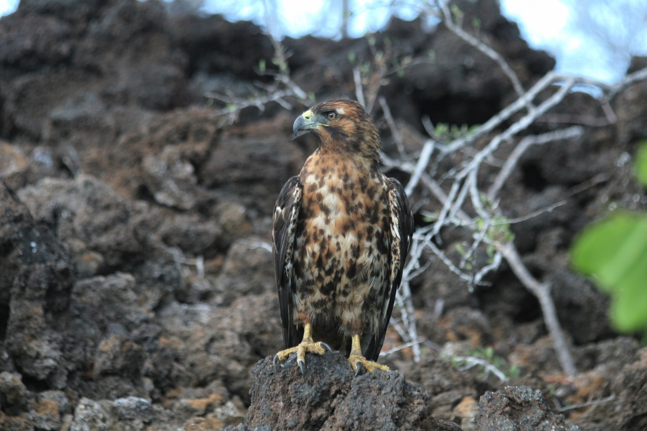 Galápagos Hawk (Buteo galapagoensis) standing on a rock.